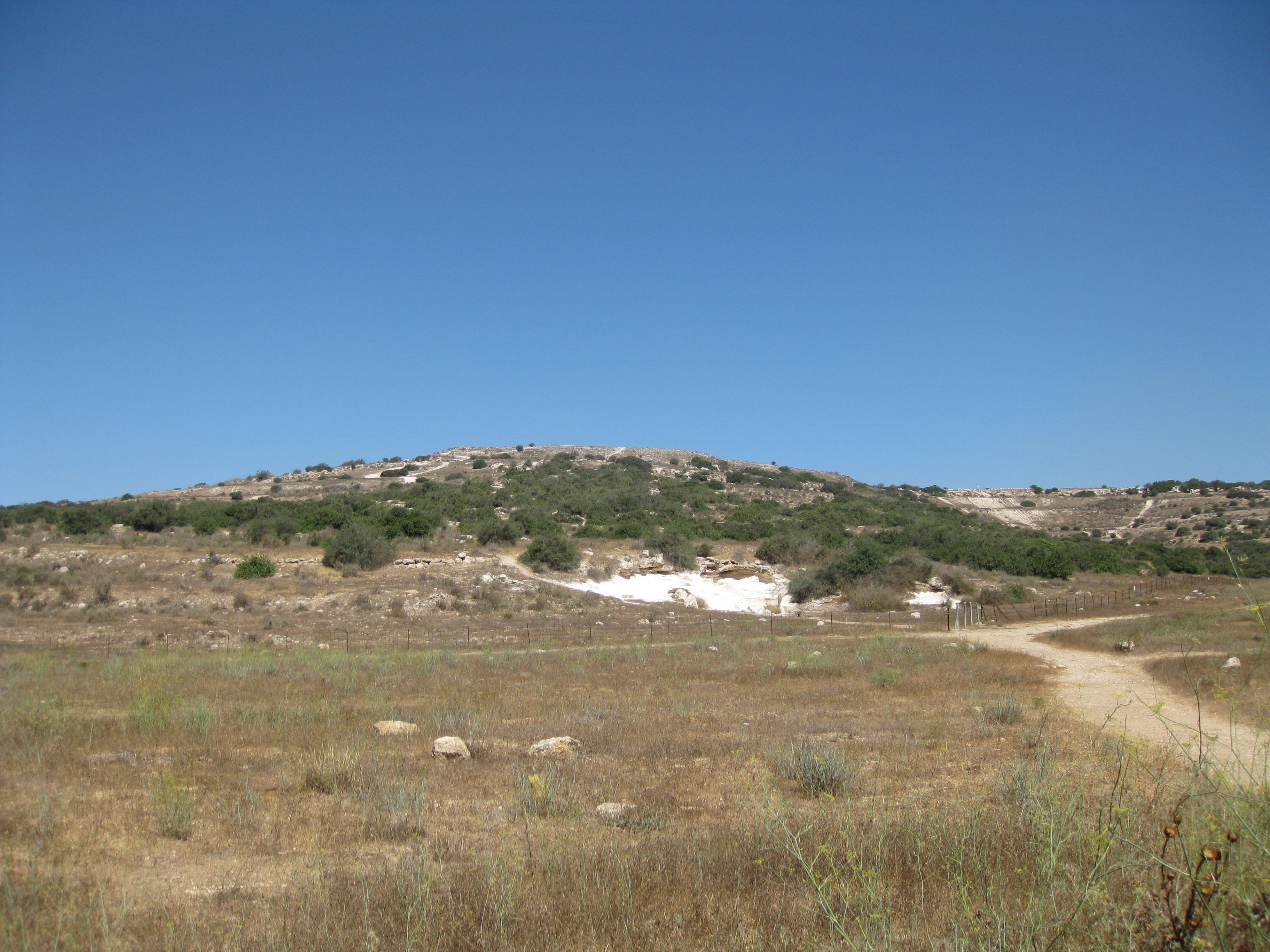 Tel Goded